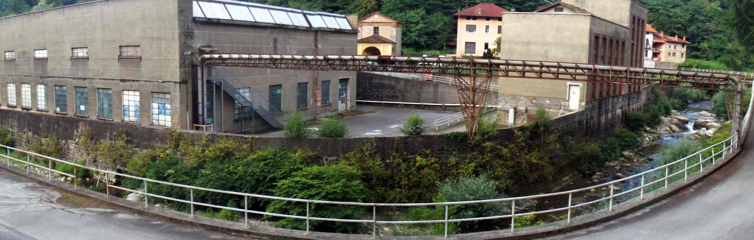 Strona creek at Molino Filippo (Valle San Nicolao, BI, Italy)